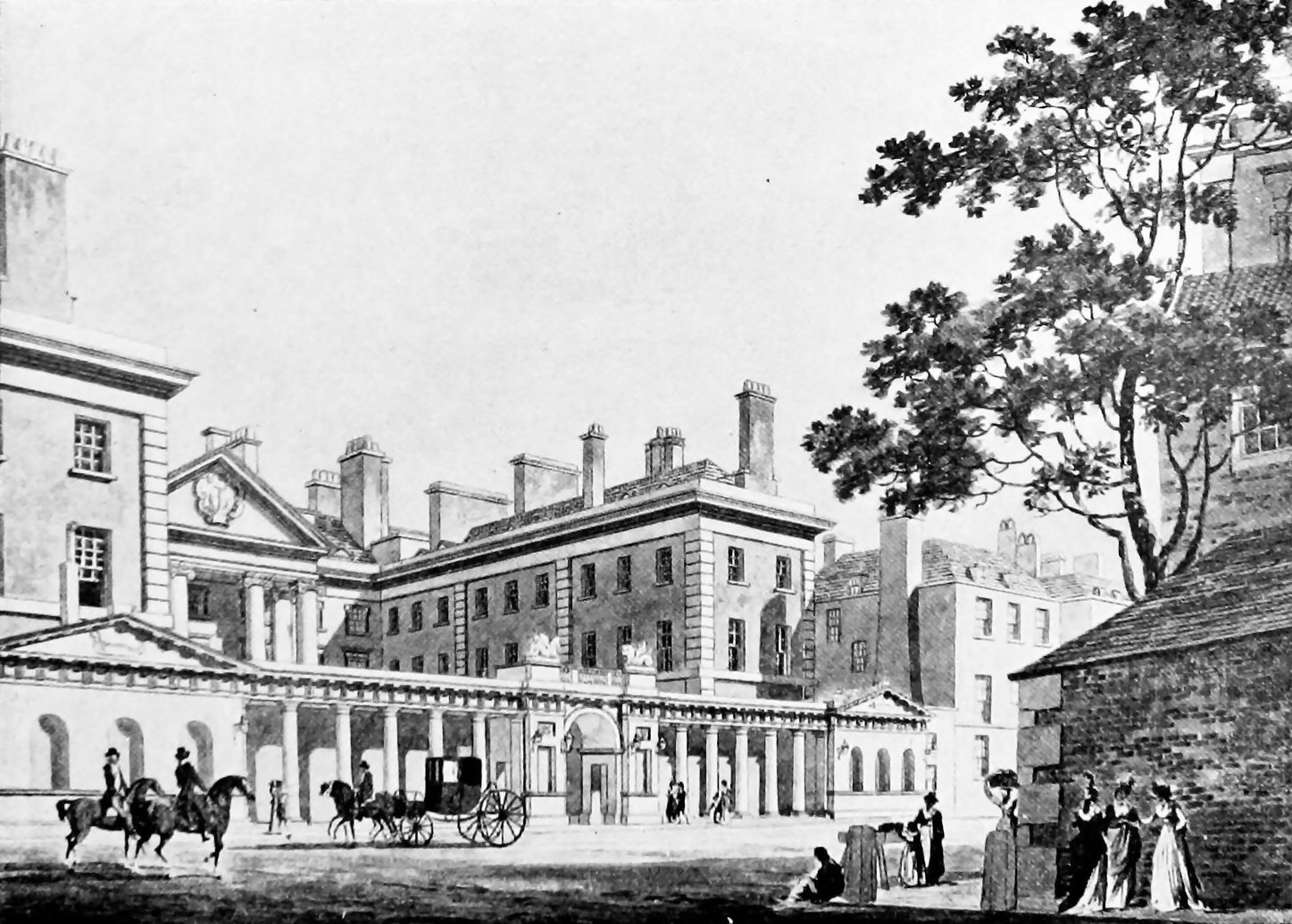 Reproduction of a water colour of the Admiralty office in Whitehall, London. Stated to be from the Pennant Collection in the British Museum (as of 1896)